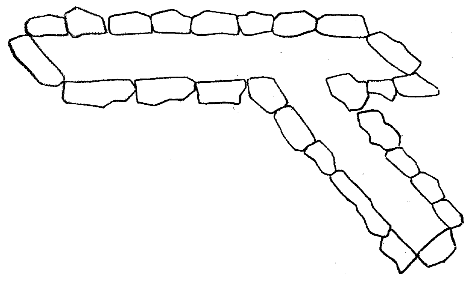 Plan of the now destroyed megalithic tomb Ebendorf